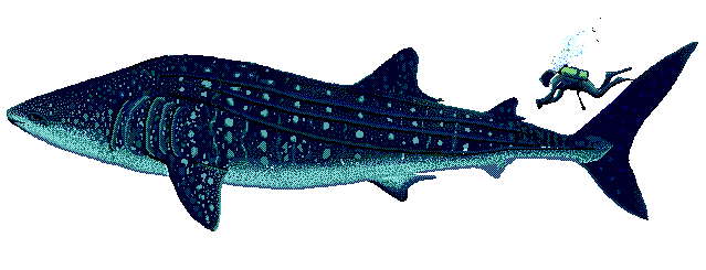 Rhincodon typus